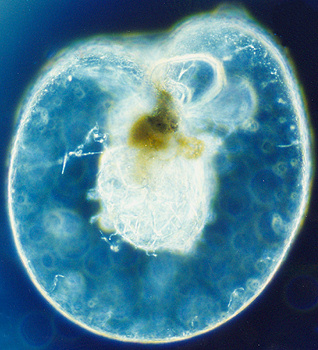 Noctiluca scintillans, Dinoflagellate that exhibits bioluminescence